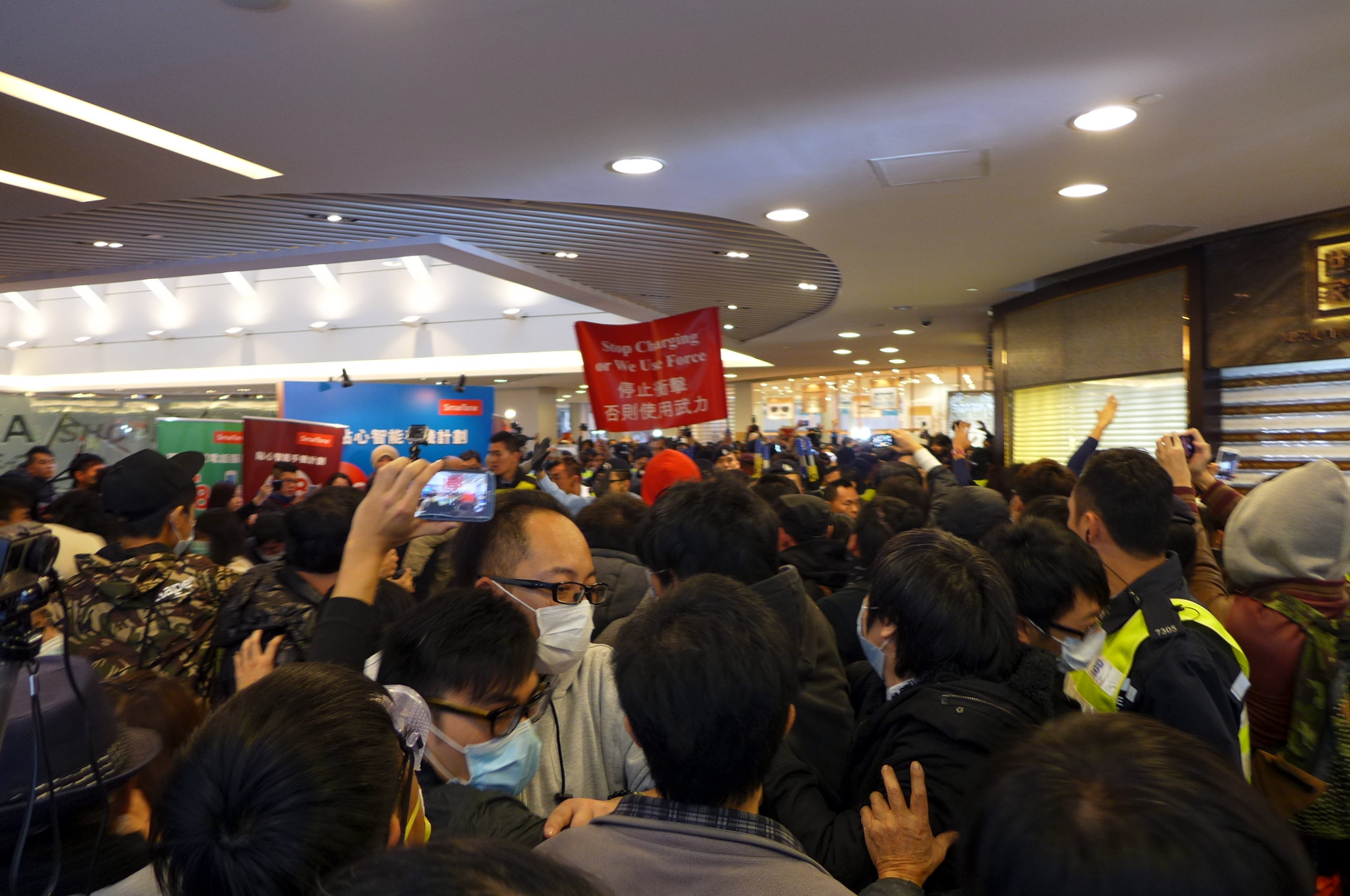 Police force in Trend Plaza